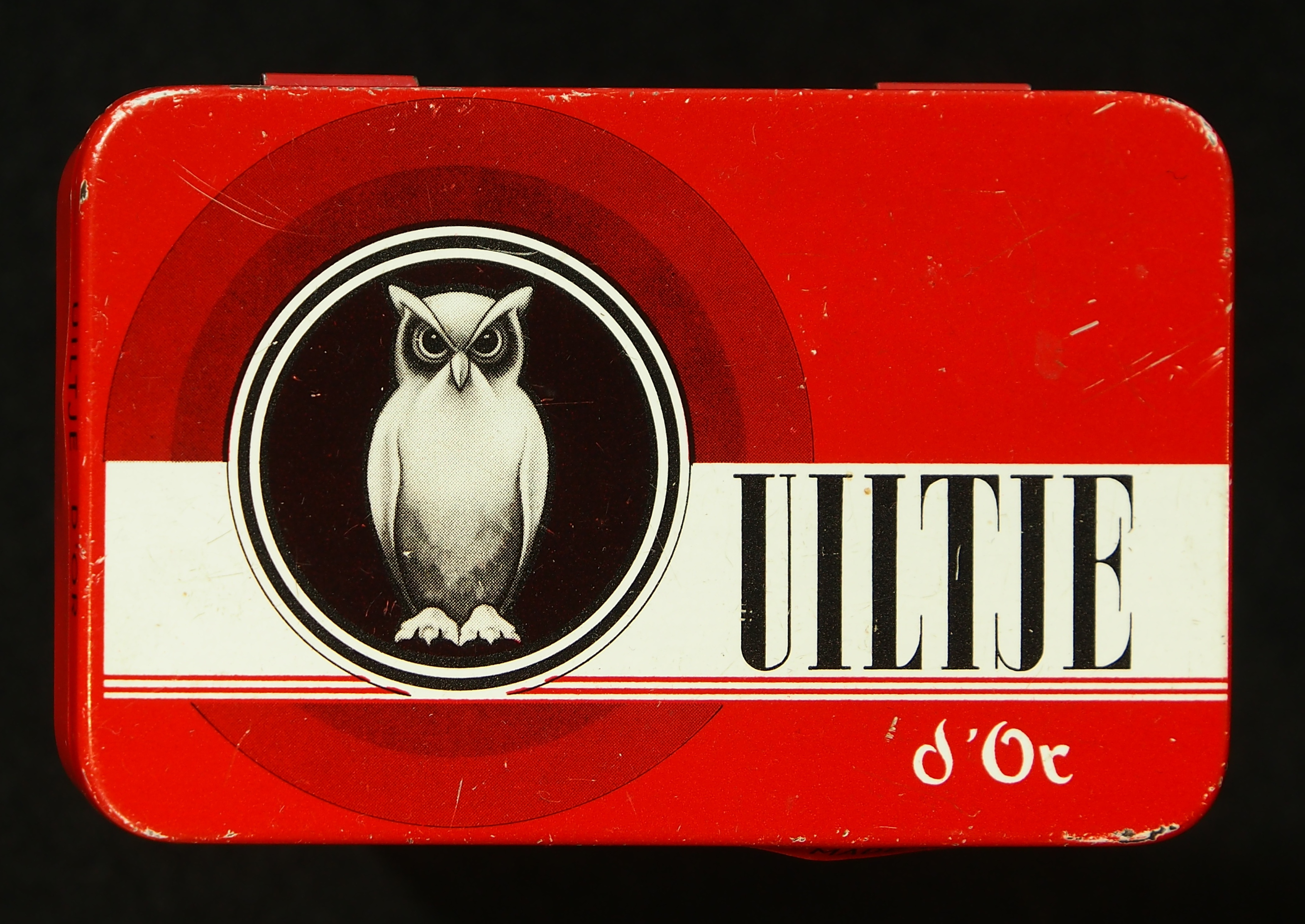 Very old packaging of a Dutch product that is not produced and/or not sold any more.